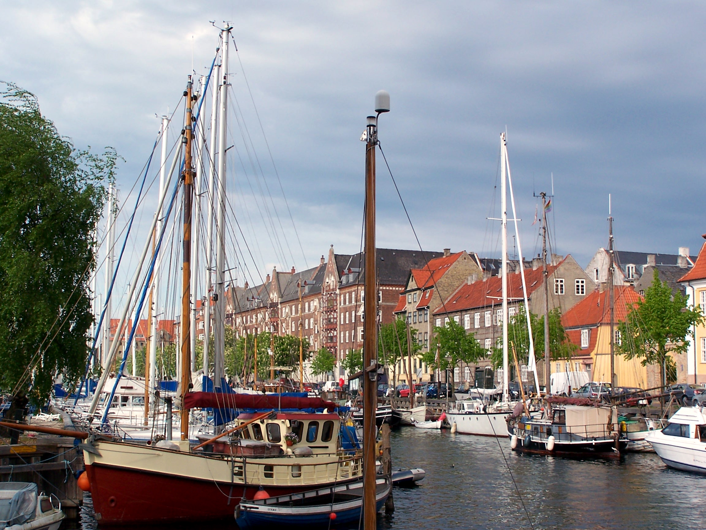 Boats in Christianhavns Kanal in the Christianshavn neighbourhood of Copenhagen, Denmark